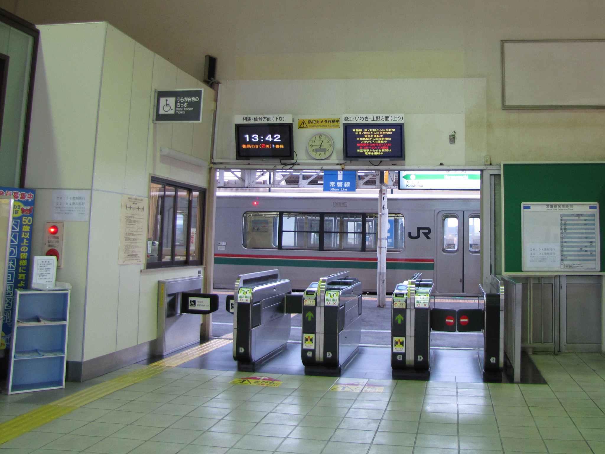 Joban Line Haranomachi Station. The information board above the wicket shows that the trains for Iwaki are not in operation due to the Tohoku Earthquake and its subsequent tsunami